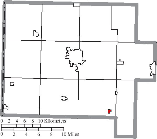 Map of the municipal and township boundaries of Van Wert County, Ohio, United States, as of the 2000 census, with the location of the village of Elgin highlighted. Township borders are shown only in unincorporated areas in order to differentiate incorporated and unincorporated areas more clearly.